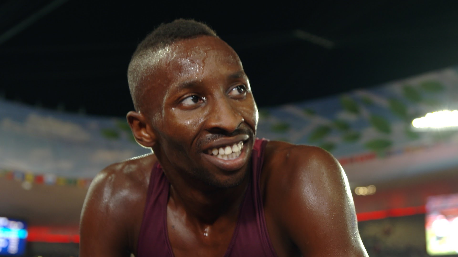 "Just after his race, I approached to interview him. The man of wonders I like to call him, friendly and not too chatty and most definitely considered a national hero for Qatar."